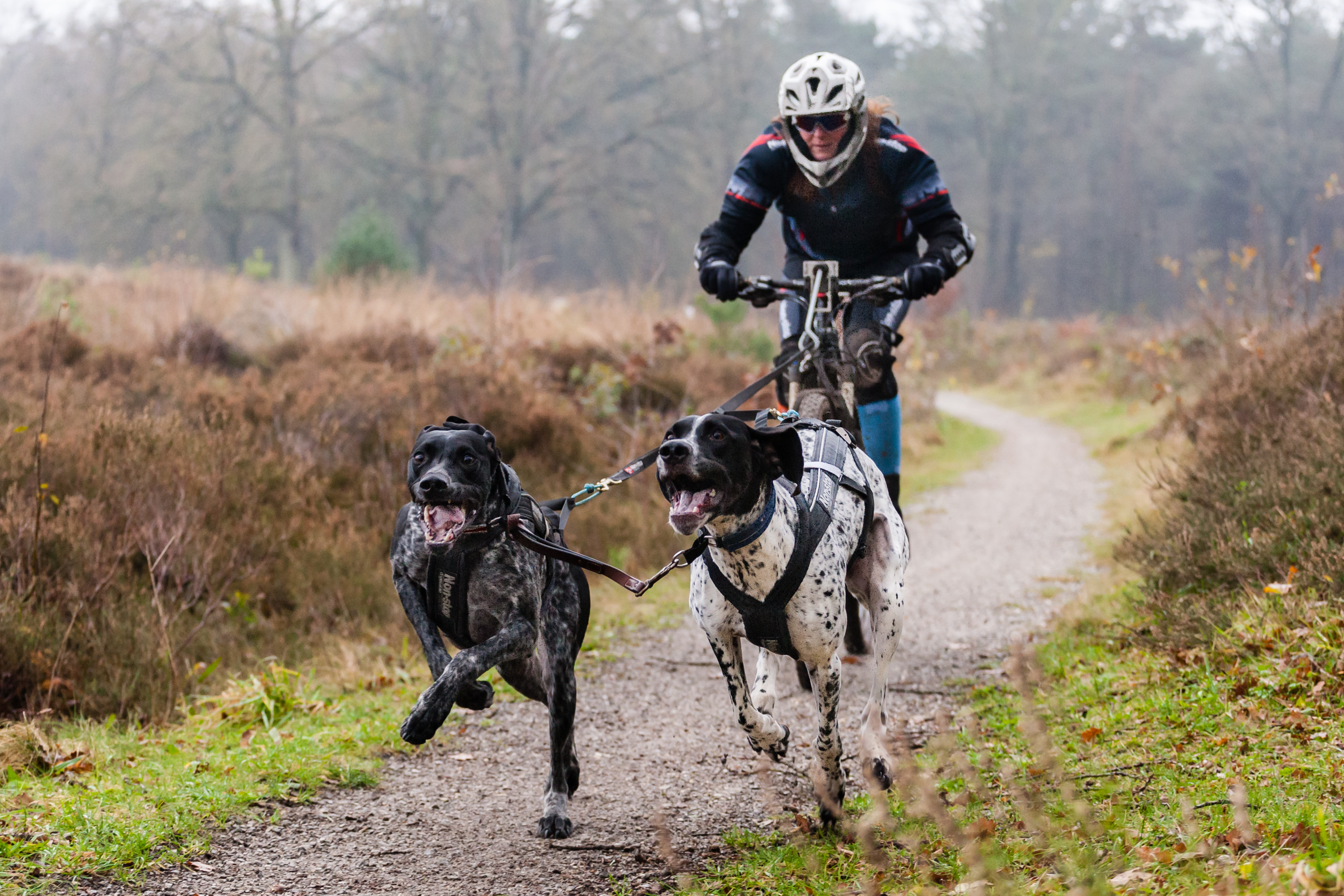 Dogscootering with two Greysters